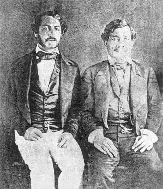 A daguerreotype of King Kamehameha III and Keoni Ana (John Kaleipaihala Young II) in 1850.